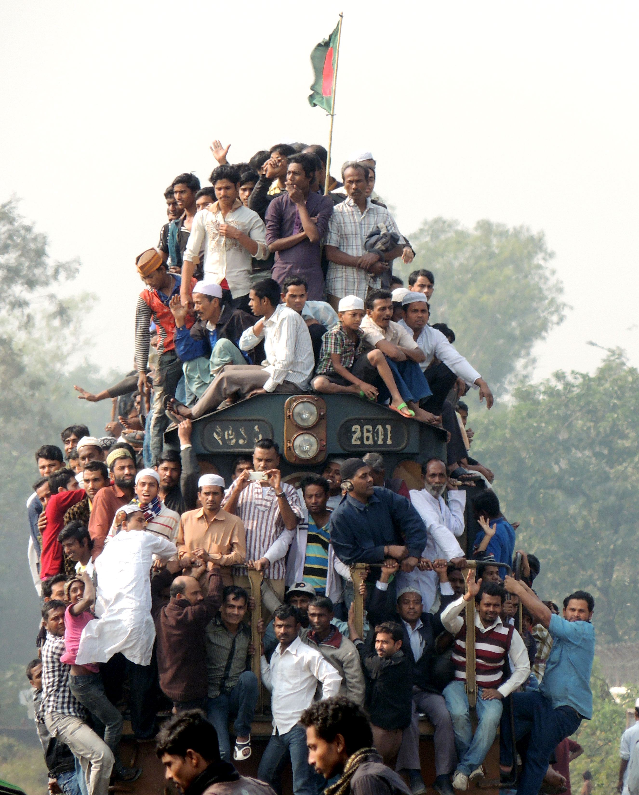 Bishwa Iztema 2013 Phase II. People are going for the Akeri Monajat (the final do'a) to Tongi, Dhaka, Bangladesh, by train.